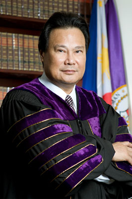 Official photograph of former Chief Justice of the Supreme Court Renato Corona.